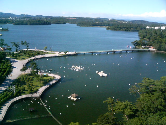 An aerial view of Tokiwa park, Ube from the coal-mining tower in the park. Photograph taken by uploader.